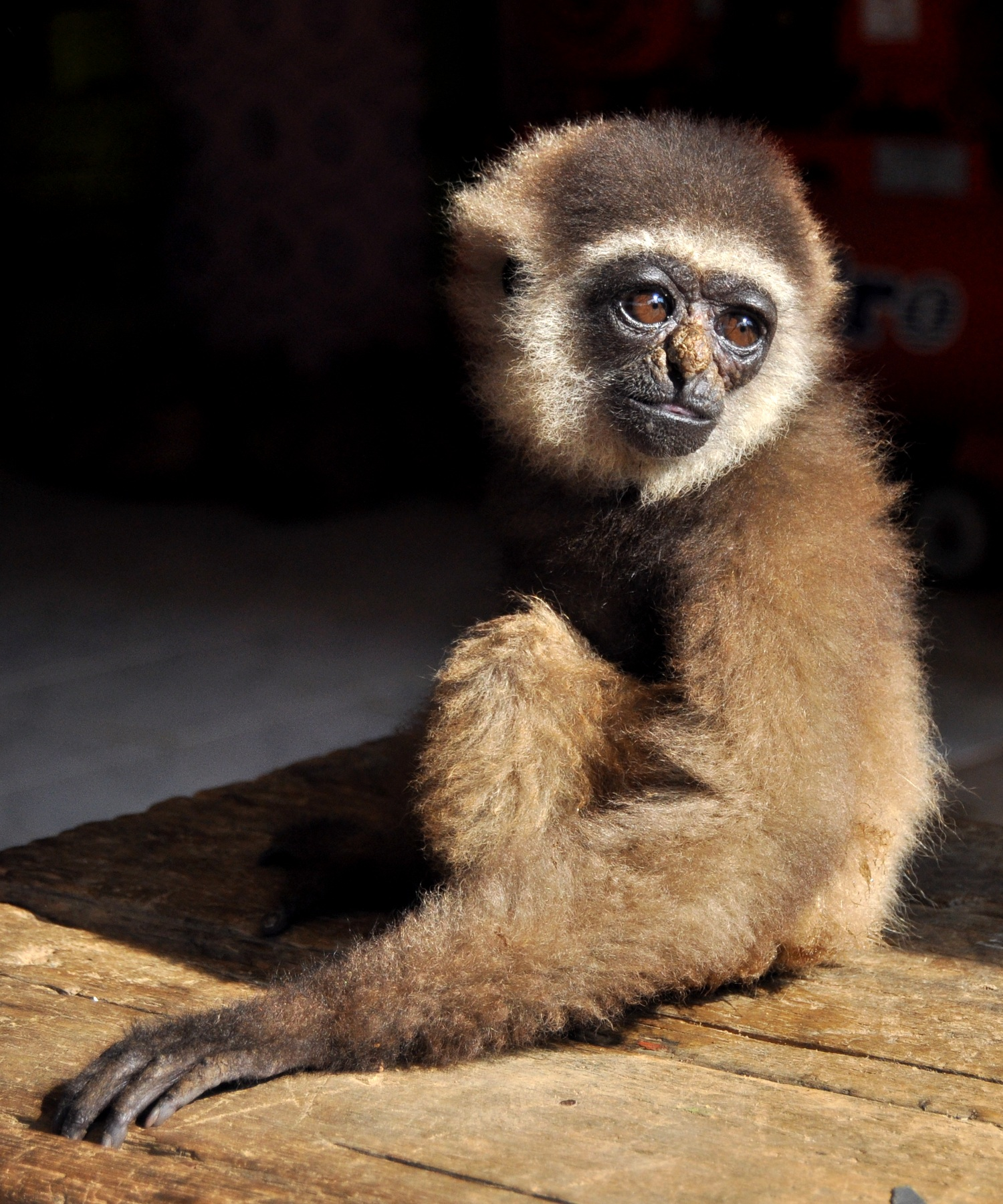 Hylobates albibarbis, juvenile. From Ketapang Regency, West Kalimantan, Indonesia